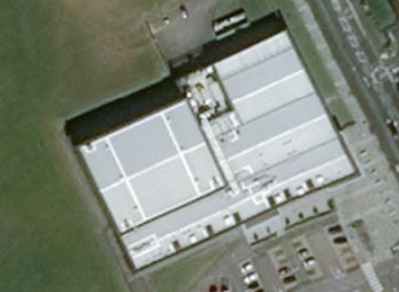 Satellite view